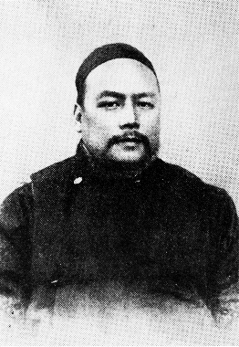 Liang Shiyi (1869-1933)